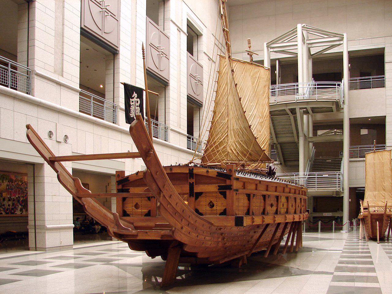 Turtle ship in the War Memorial of Korea, opened in 1994, is largely a museum-like War Memorial in Seoul South Korea. The War Memorial has six display rooms displaying over 13,000 documents and war memorabilia items, and an outdoor exhibition center displaying military equipment, illustrating the turbulent times of Korea throughout its history.